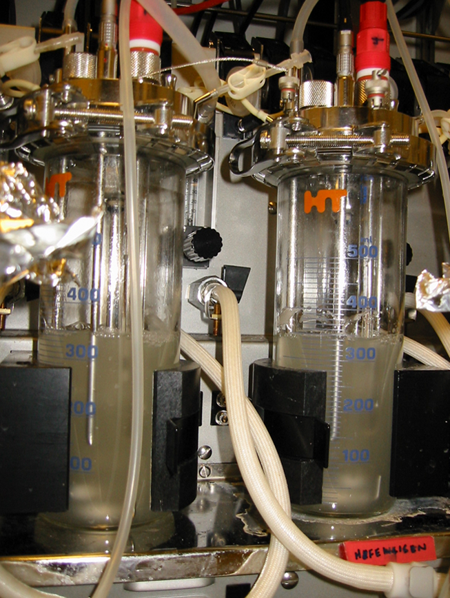 By applying systems-level biology to yeast cells growing in steady-state potassium limited chemostats (pictured above), the authors uncovered ammonium toxicity in yeast.